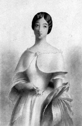 La Dame aux camélias from the novel by Alexandre Dumas (fils). Engraving by Adolphe Pierre Riffaut (1821-1859) after Charles Chaplin (1825-1891)